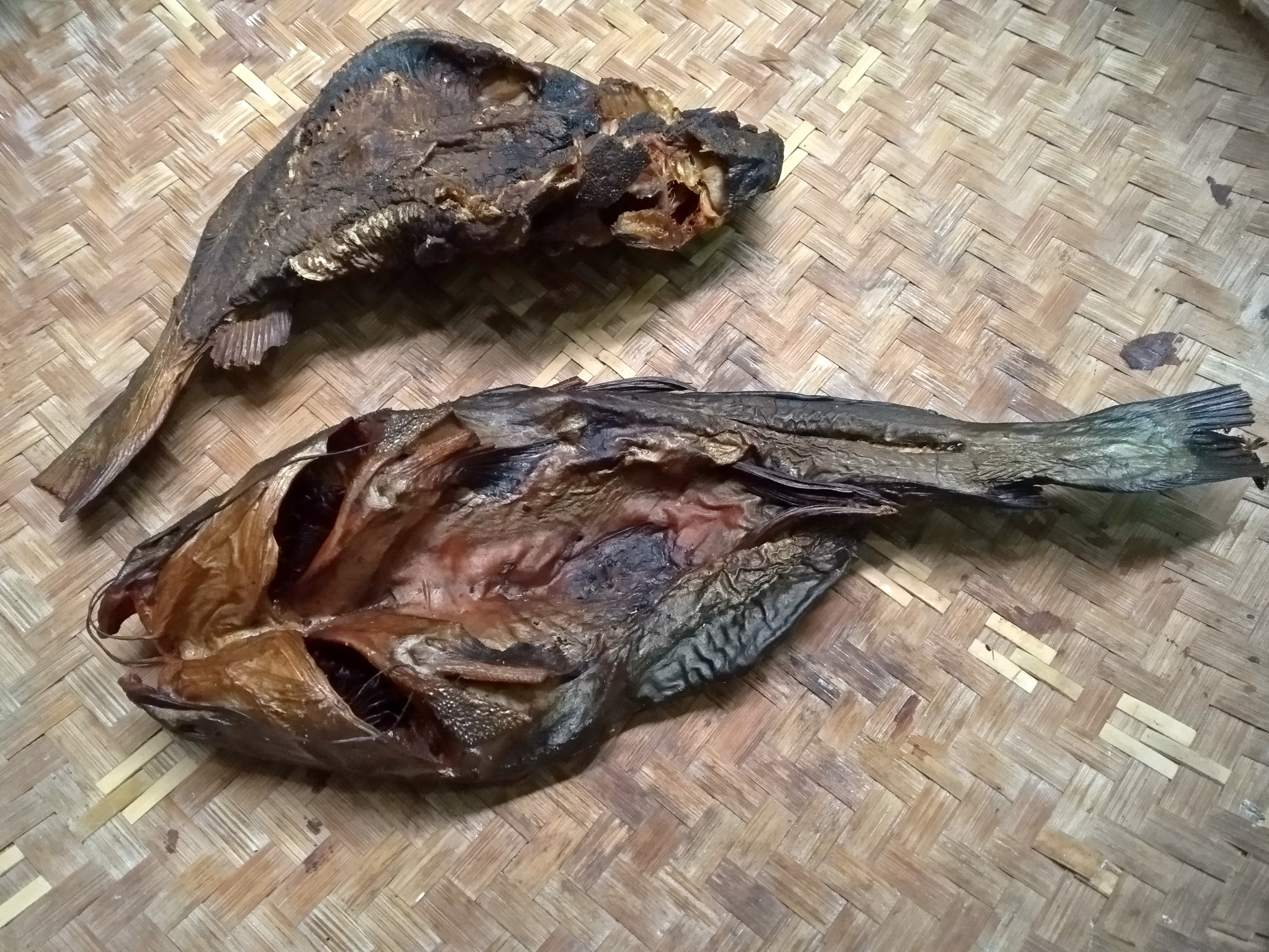 Ikan salai (smoked fish) of kedukang (Hexanematichthys sagor, Ariidae), but sold as baung (Hemibagrus species of Bagridae) at Pasir Gintung market of Bandar Lampung, Sumatra, Indonesia.